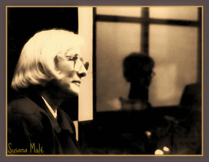 Picture of Argentine writer Mirta Arlt, by Susana Mulé.